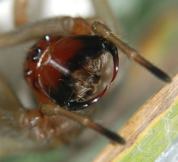 Cheiracanthium punctorium, female, threatening.